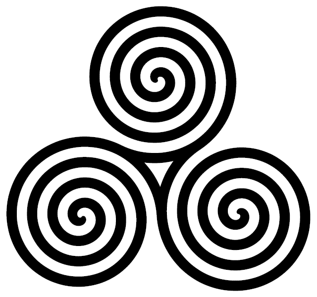 Most elaborate version of Triple Spiral symbol constructed from mathematical Archimedean spirals (see Image:Triple-Spiral-Symbol.png). This version consists of filled spirals with four turns. See also Image:Triskele-Symbol-spiral.png (with two turns) and Image:Triple-Spiral-Symbol-filled.png (with three). Image:Triple-Spiral-4turns_green_transparent.png is another variant. For a basic triple-spiral, see Image:Triple-Spiral-Symbol.png , and for "wheeled" forms of the spiral triskelion/triple spiral symbol, see Image:Wheeled-Triskelion-basic.png , Image:Roissy triskelion iron ring signet.png , Image:Triple-spiral-wheeled-simple.png , or Image:Triskelion-spiral-threespoked-inspiral.png . For a spiral triskelion with a hollow triangle in the center, see Image:Triskele-hollow-triangle.png . For versions of a triple-spiral labyrinth, see Image:Triple-Spiral-labyrinth.png and Image:Triple-Spiral-labyrinth-variant.png .